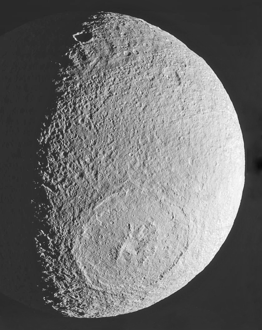 N00151608.jpg was taken on February 14, 2010 and received on Earth February 15, 2010. The camera was pointing toward TETHYS at approximately 177,266 kilometers away, and the image was taken using the CL1 and IR1 filters. This image has not been validated or calibrated. A validated/calibrated image will be archived with the NASA Planetary Data System in 2011. For more information on raw images check out our frequently asked questions section. The original NASA image has been modified by cropping and expanding the canvas, darkening highlights, increasing midtone contrast and sharpening.